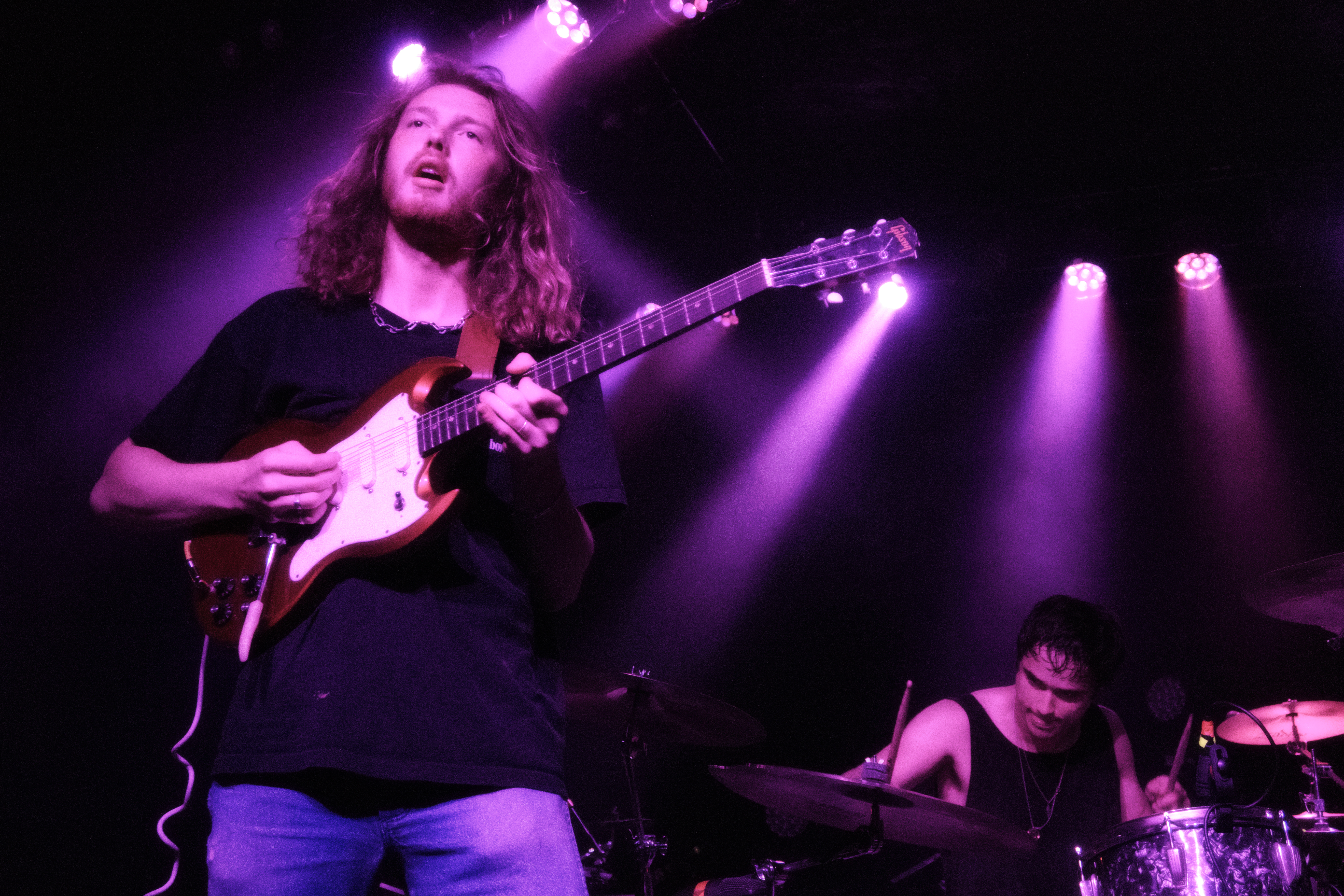 The band Naked Giants performing a live show at "The Showbox" venue in Seattle